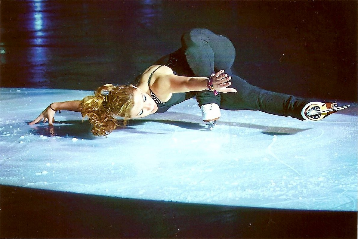 Korri performs a hydroblade at an exhibition.